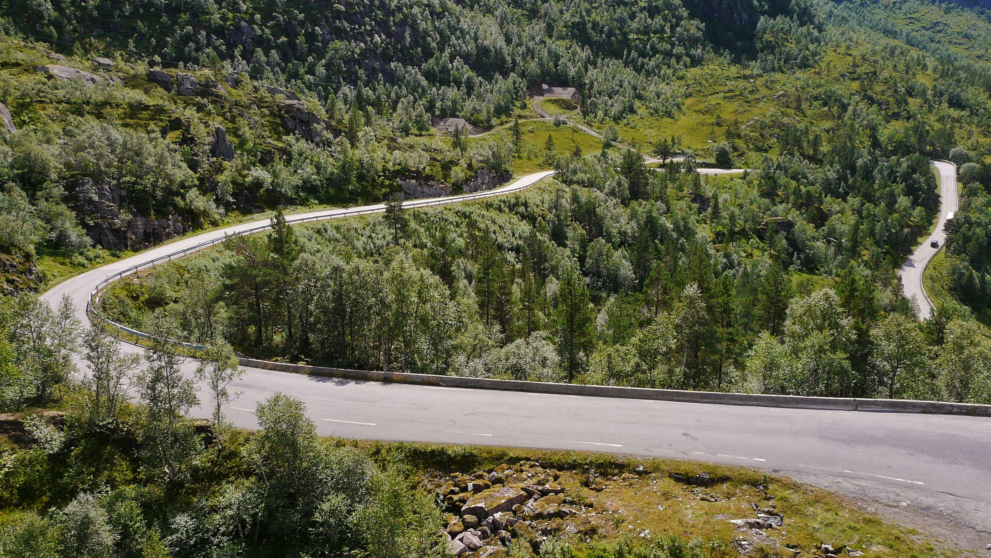 A view to the serpentine Riksvei 13 -road from Rørvikfjellet to the west in 2008 August.